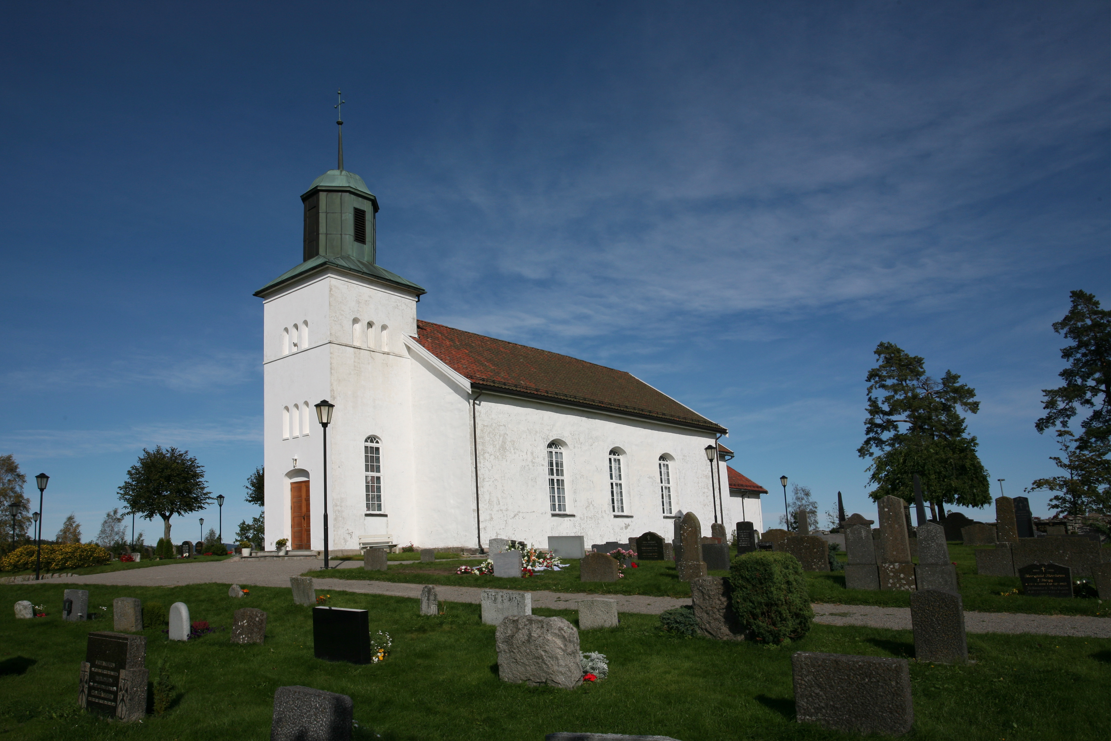 Picture of Botne kirke (Vestfold - Norway)